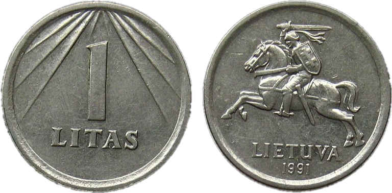 1 litas coin released in 1993, but minted in 1991.